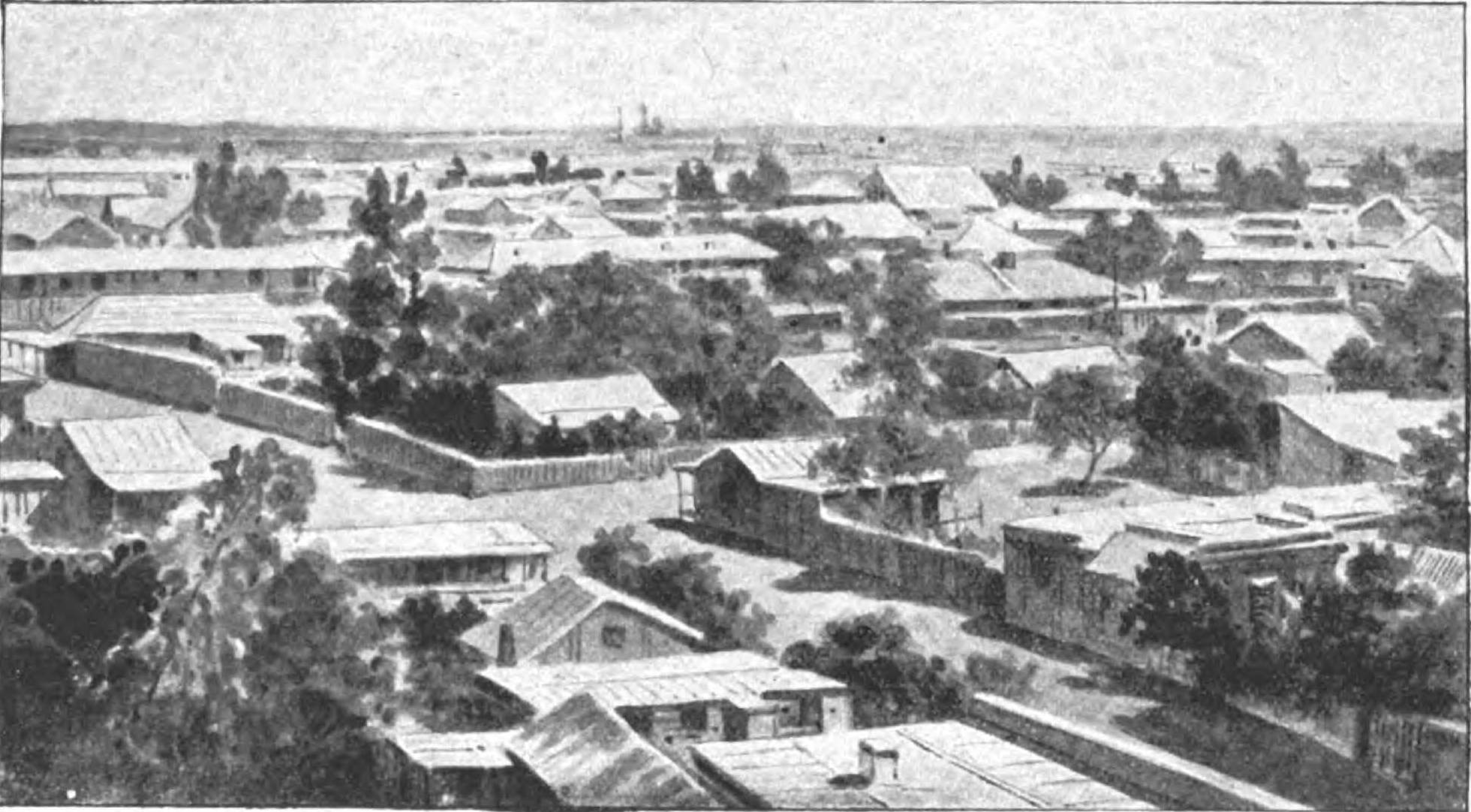 no caption